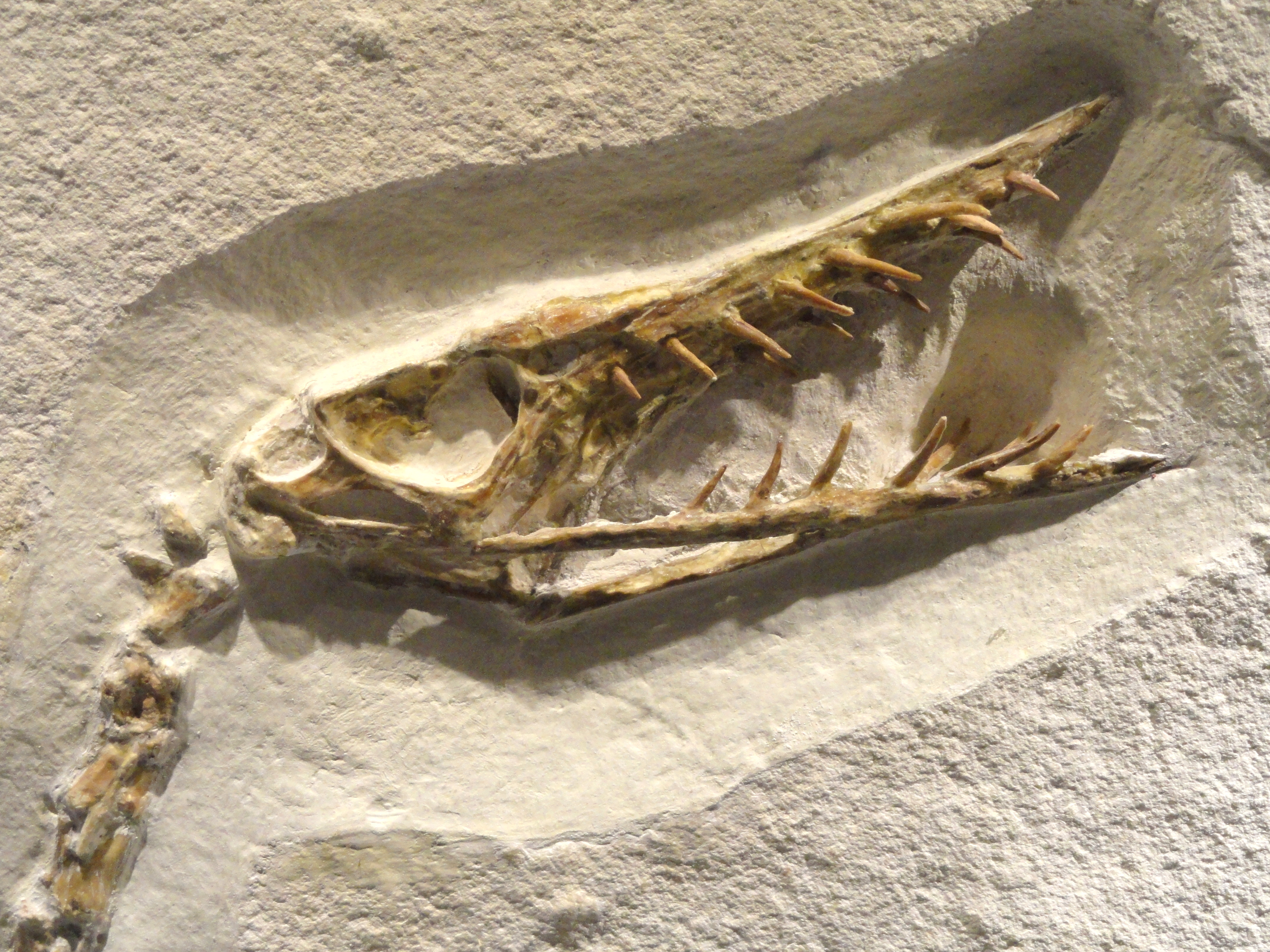 Exhibit in the Houston Museum of Natural Science, Houston, Texas, USA.